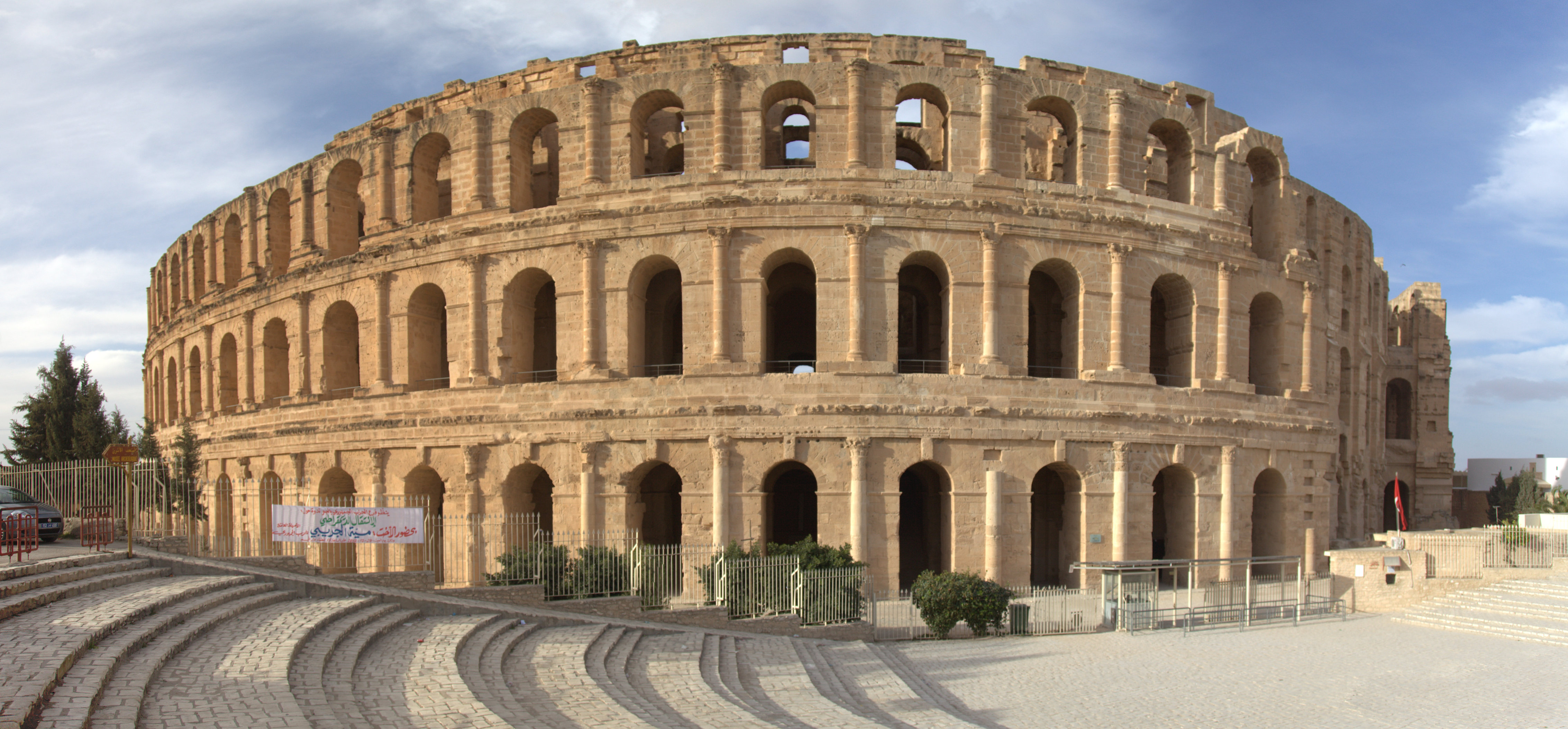 Panorama stitch of the front entrance of the amphitheatre in El Jem. Panorama created with Hugin August 22 from three photos. Photos were shoot 2012-12-27.